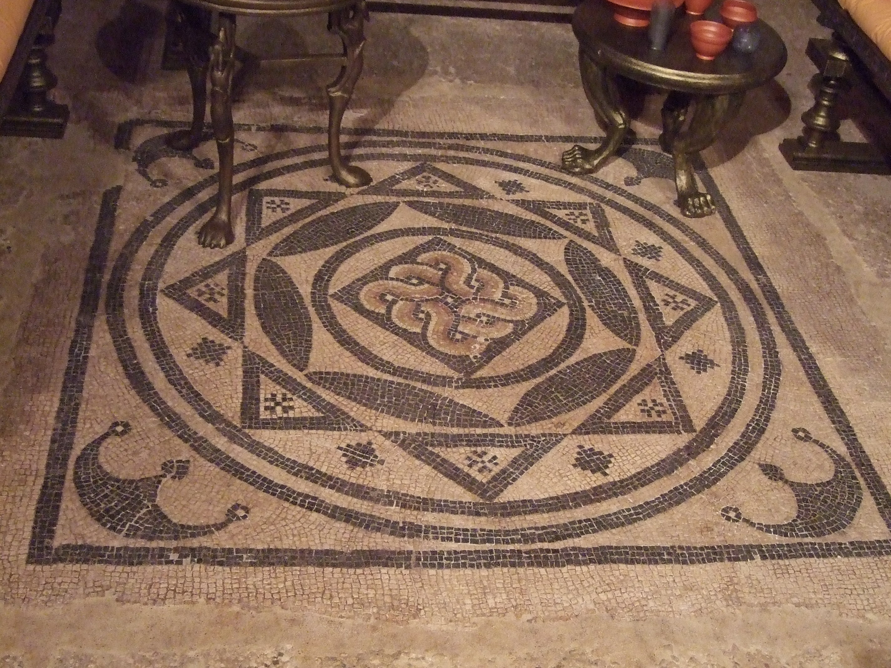 Triclinium of the Añón street (1st c. AC). Caesaraugusta